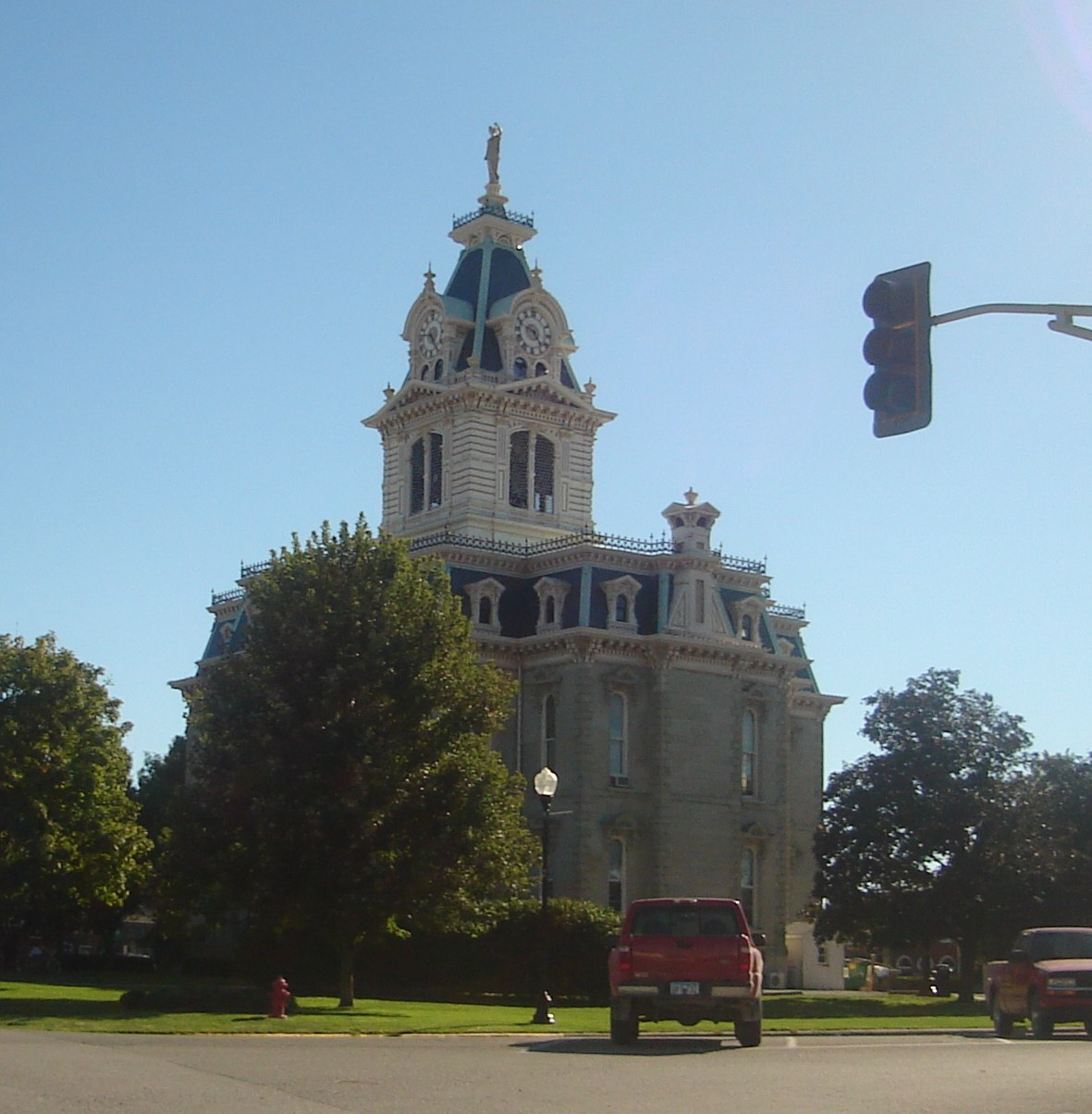 Picture of Bloomfield's Courthouse.